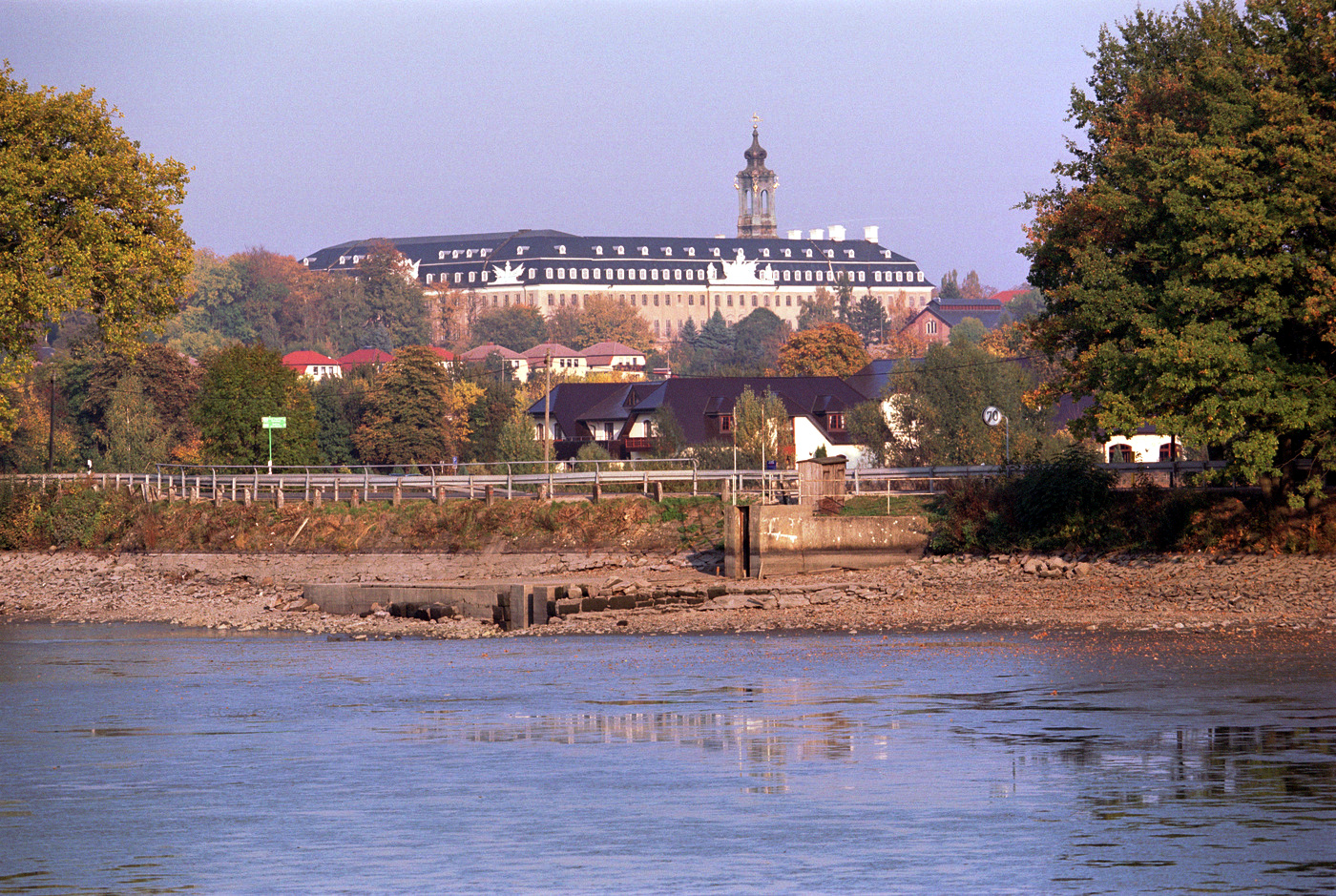 self taken image, taken in autumn 2005 shows the lake Horstsee in front (without water, because of late autumn) and castle Hubertusburg in Wermsdorf, Germany